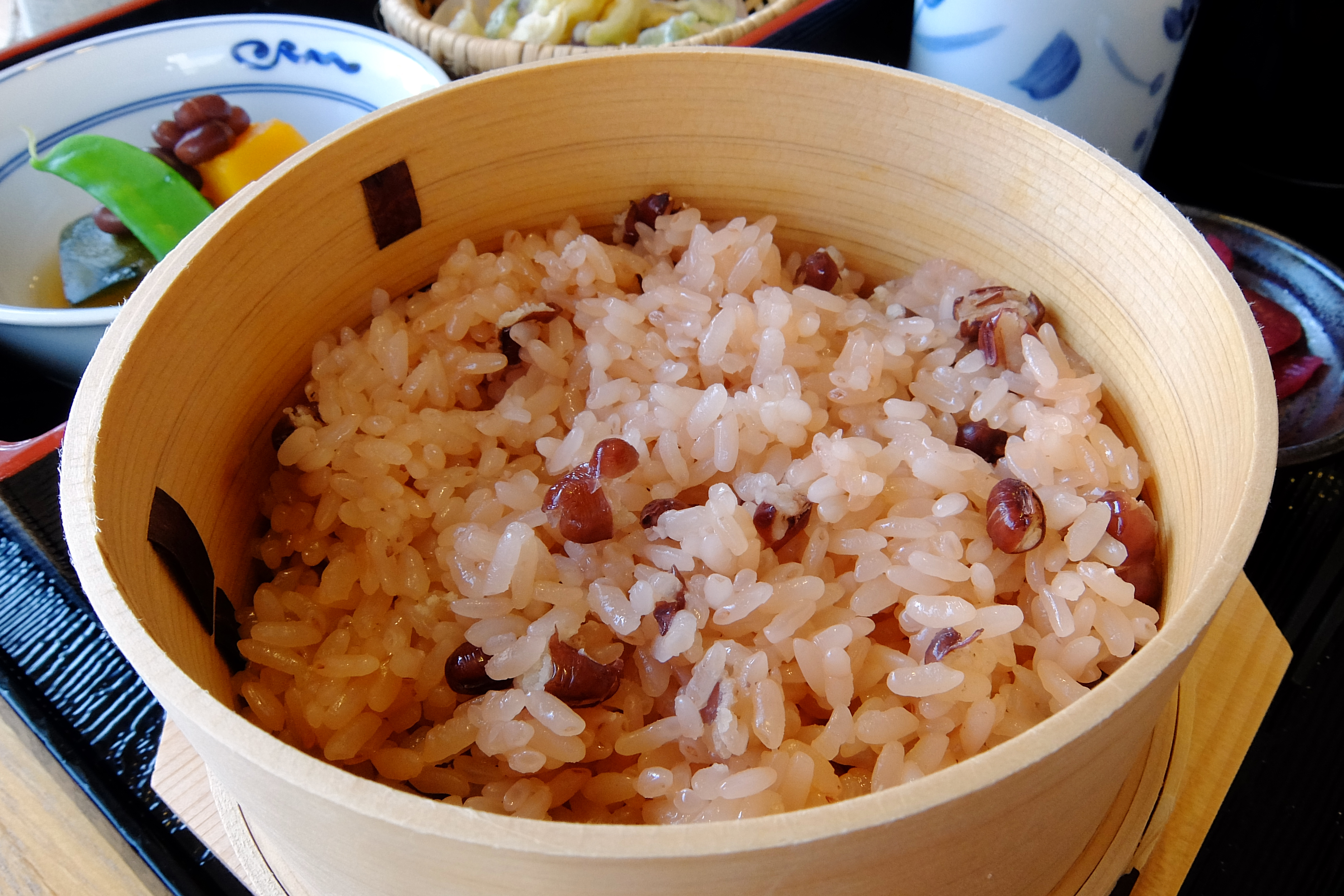 Azuki Museum in Himeji, Hyogo prefecture, Japan.